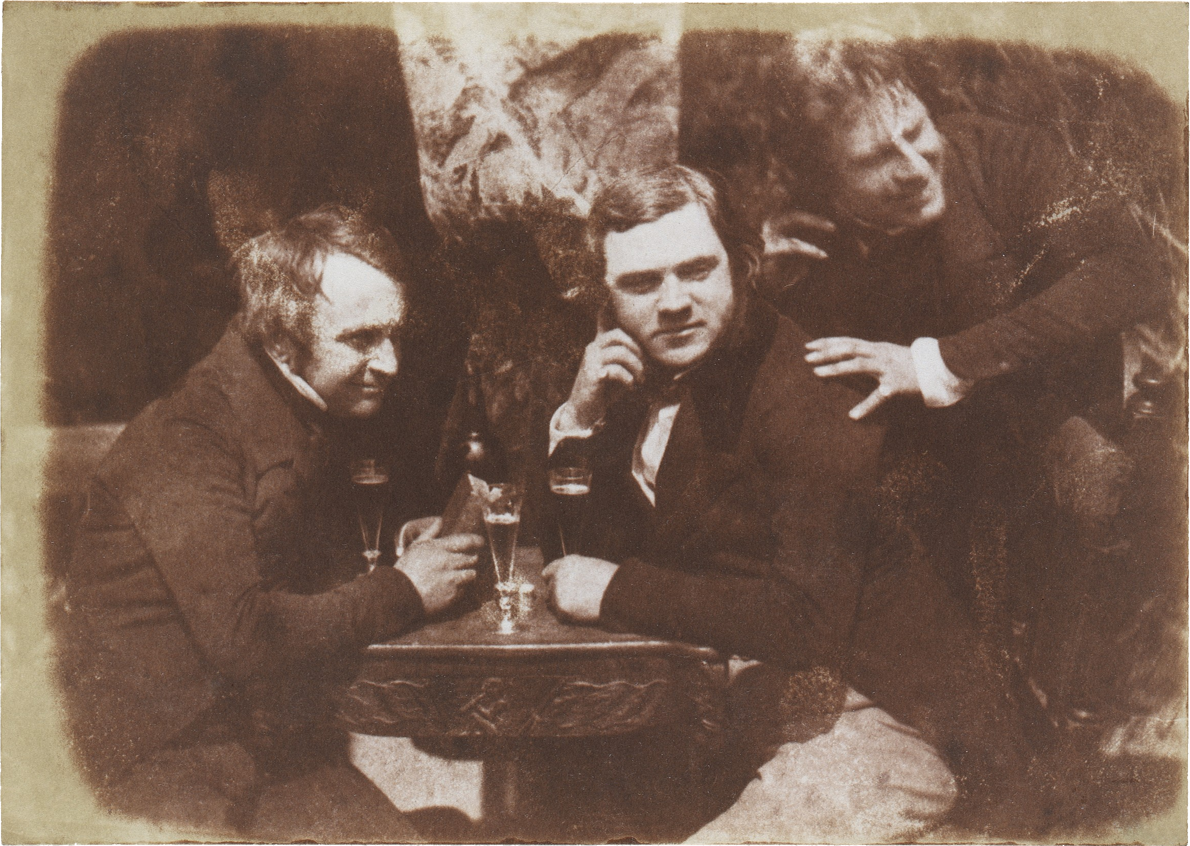 The skills involved in producing calotypes were not only of a technical nature. Hill’s sociability, humour and his capacity to gauge the sitters’ characters all played a crucial part in his photography. He is shown here on the right, apparently sharing a drink and a joke with James Ballantine and Dr George Bell. Bell, in the middle, was one of the commissioners of the Poor Law of 1845, which reformed poor relief in Scotland, and author of Day and night in the wynds of Edinburgh[2]. Ballantine was a writer and stained-glass artist, and the son of an Edinburgh brewer. On the table we see a beer bottle and three 19th-century drinking glasses called “ale flutes”. One contemporary account describes a popular Edinburgh ale (Younger's) as "a potent fluid, which almost glued the lips of the drinker together, and of which few, therefore, could dispatch more than a bottle."[3]